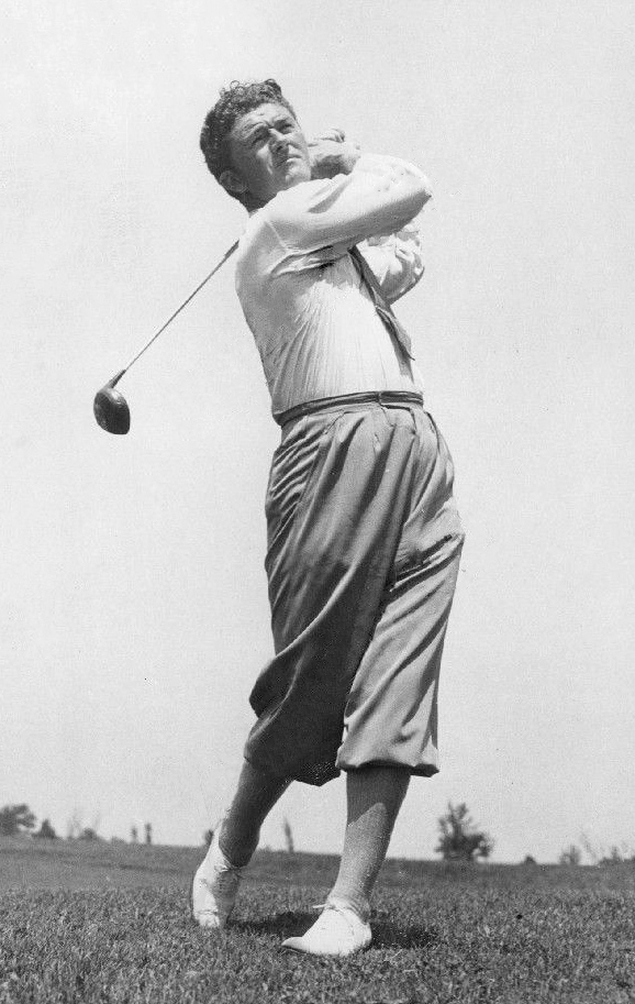 1933 Golfer Frank Walsh at North Shore Golf Club Press Photo